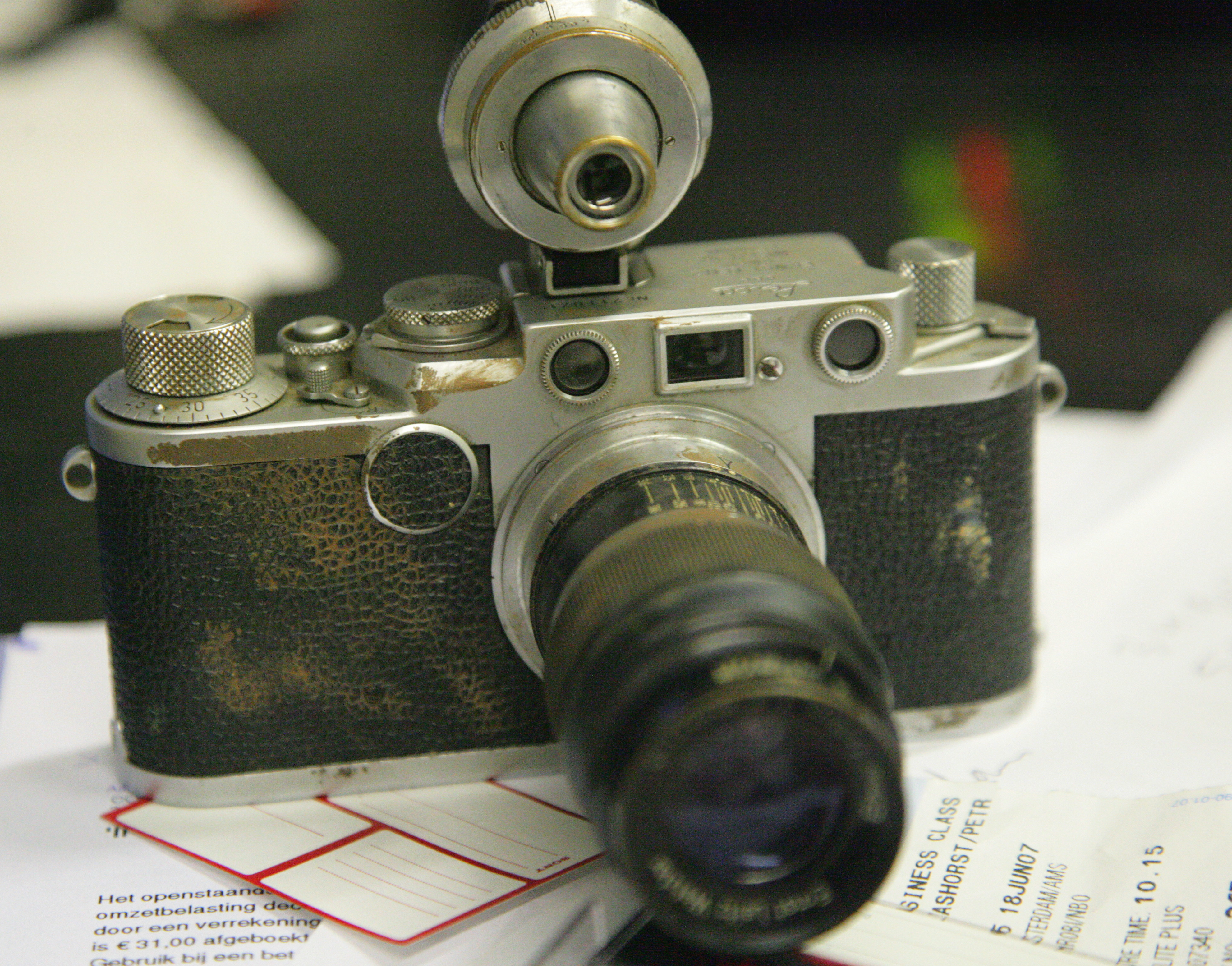 Leica IIIf of 1954. Work by Dutch artist Peter Klashorst.